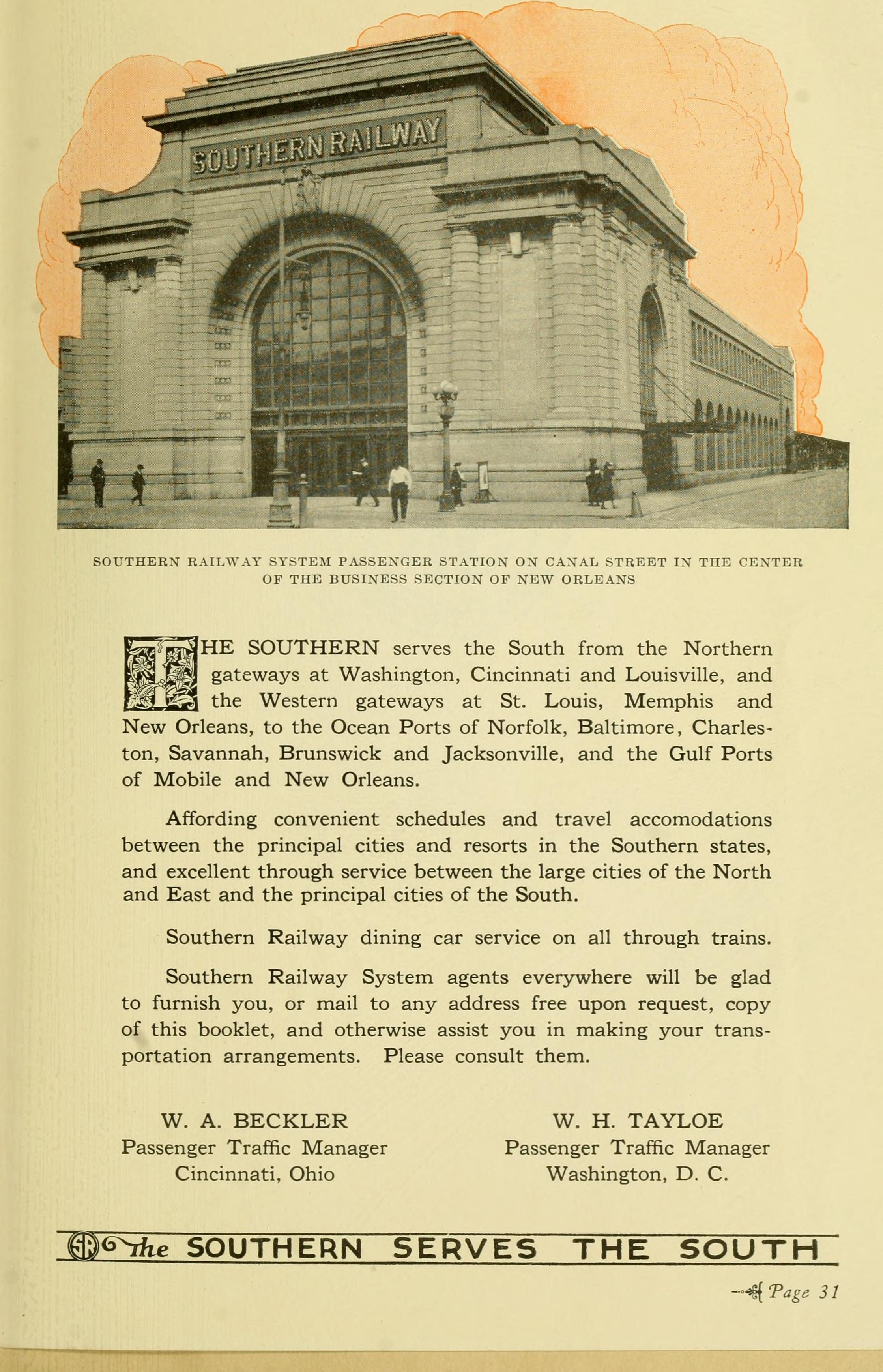 Booklet "New Orleans - City of Old Romance and New Opportunity". Page showing New Orleans Terminal aka Southern Railway Terminal at Canal & Basin Streets. Promotional booklet published by Bauerlein, Inc, New Orleans, by unnamed contributors sponsored by the Southern Railway System. Note: Web source gives date as "1920"; photos showing the Hibernia Bank Building apparently complete suggest the following year; no date or copyright statement in the original.